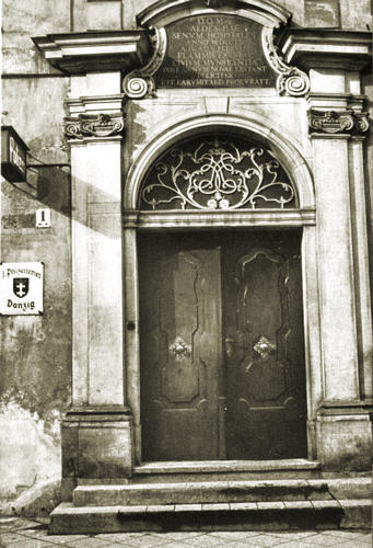 Danzig Revir 1 at Elisabethkirchengasse 1 (Elzbietanska street)